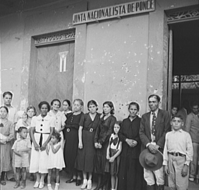 Relatives of Nationalists killed in the Ponce massacre in front of Nationalist Party headquarters. Machine gun bullet holes in the wall. Ponce, Puerto Rico.